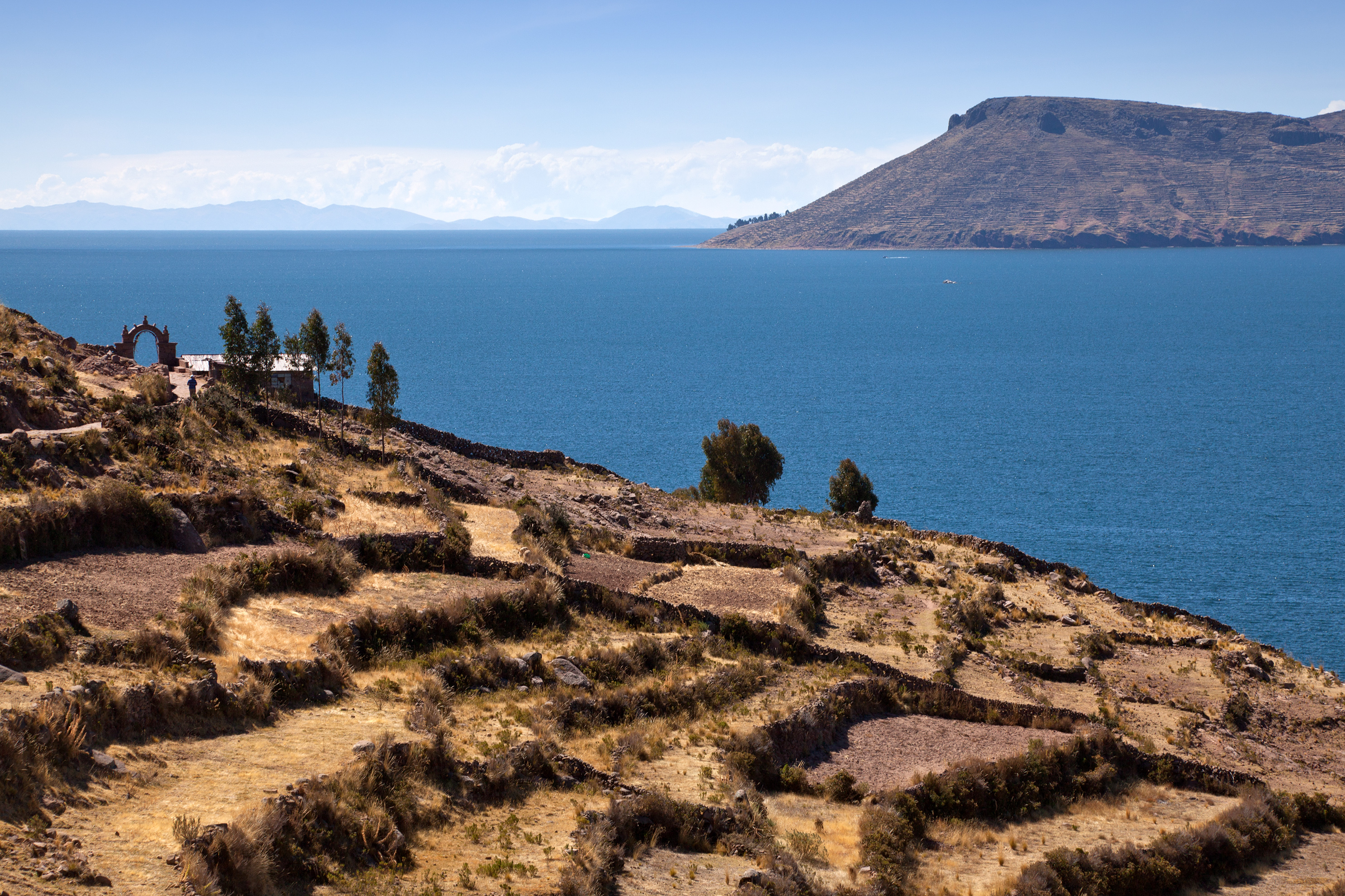 Taquile Island, Peru